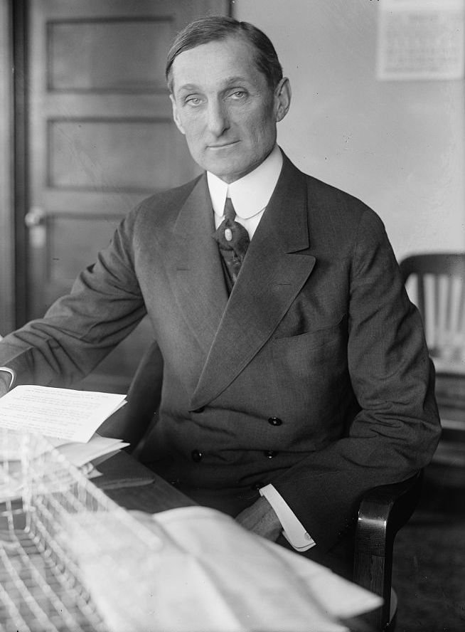 William Gibbs McAdoo (1862–1941), U.S. Secretary of the Treasury under President Woodrow Wilson.